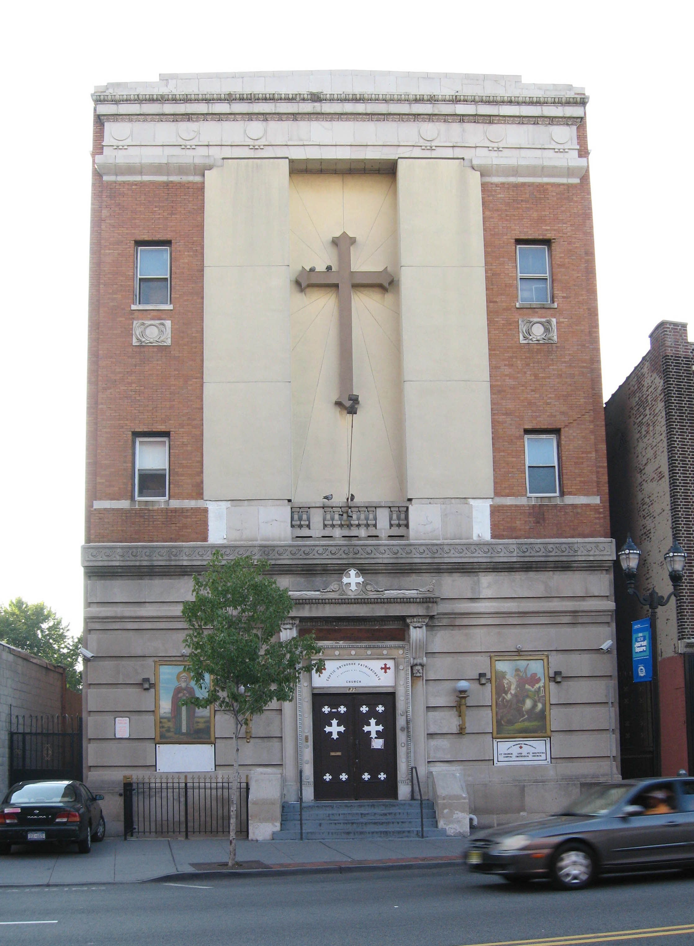 Looking west across Bergen Avenue at St. George & St. Shenouda Coptic Orthodox Church (Jersey City, New Jersey) near the end of a sunny day